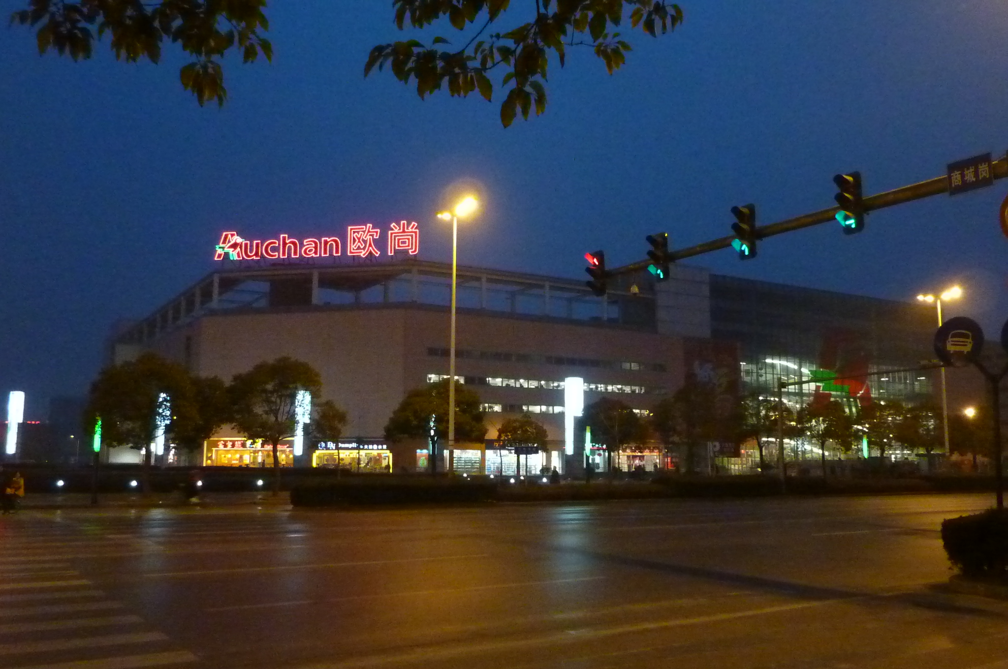 Yangzhou's Auchan supermarket, in Jiangyang Rd on the city's SW side.